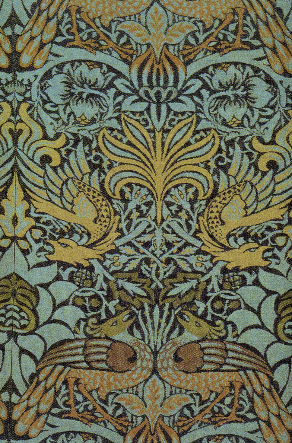 Peacock and Dragon woven woollen fabric designed by William Morris. This fabric was offered by Morris and Co. in two widths and 7 colourways. (Identification from Linda Parry: William Morris Textiles, New York, Viking Press, 1983, ISBN 0-670-77074-4, p. 152)